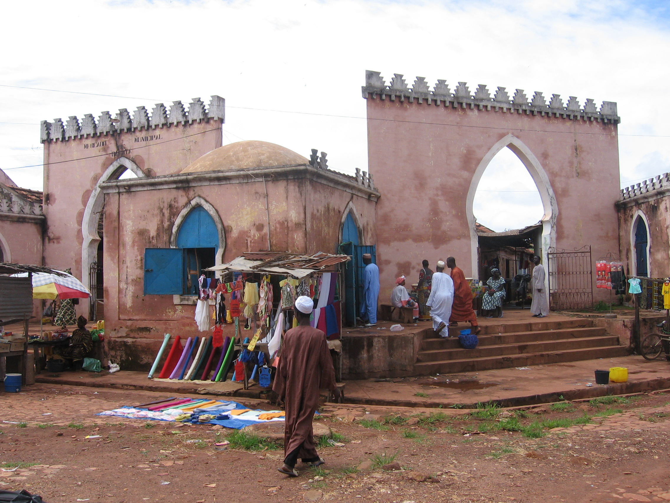 Bafatá old market in Bafatá, Guinea-Bissau